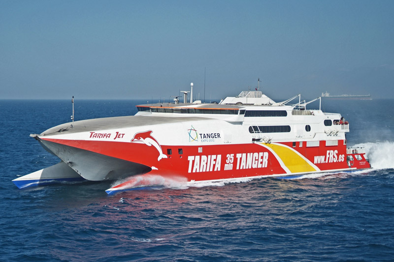 More Pictures :: 87m High Speed Craft, 800 passenger + 175 cars, max. speed 42 knots FRS Iberia S.L.